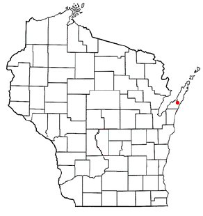 Locator map of Sturgeon Bay — a city and bay in northeastern Wisconsin. Credits